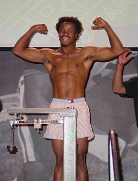 Uganda boxer Kassim Ouma at Weigh-ins at the Grand Sierra Resort in Reno, Nevada.